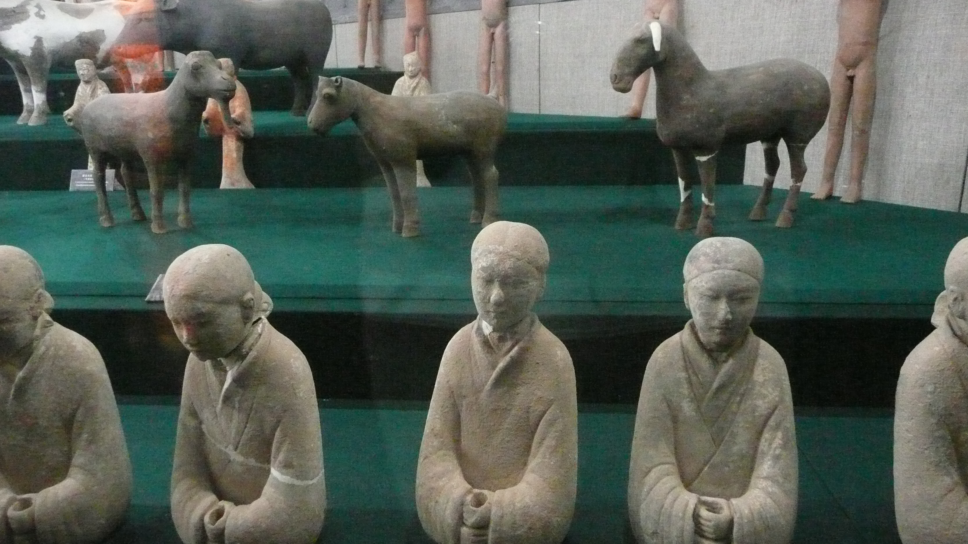 Han Yang Ling - Mausoleum of Jingdi, Han Emperor, Xianyang, near Xi'an